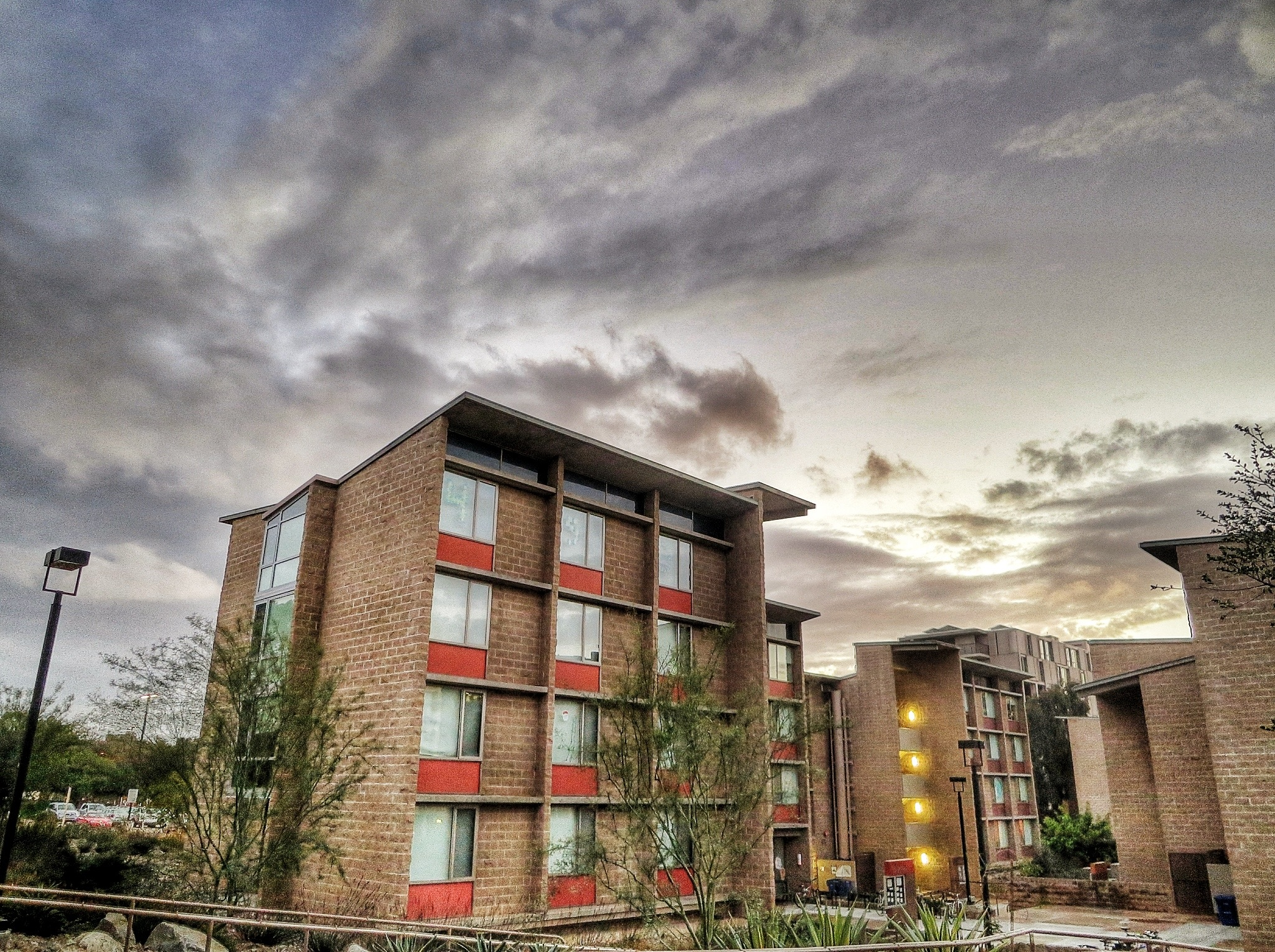 A photo of Galathea Hall, one of the Revelle College residence halls at the University of California, San Diego.